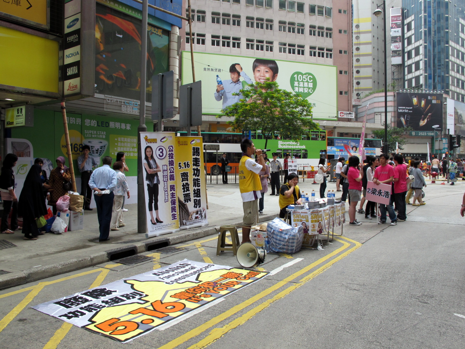 2010 Legislative Council By-election Hong Kong Island Constituency 2010年香港立法會地方選區補選